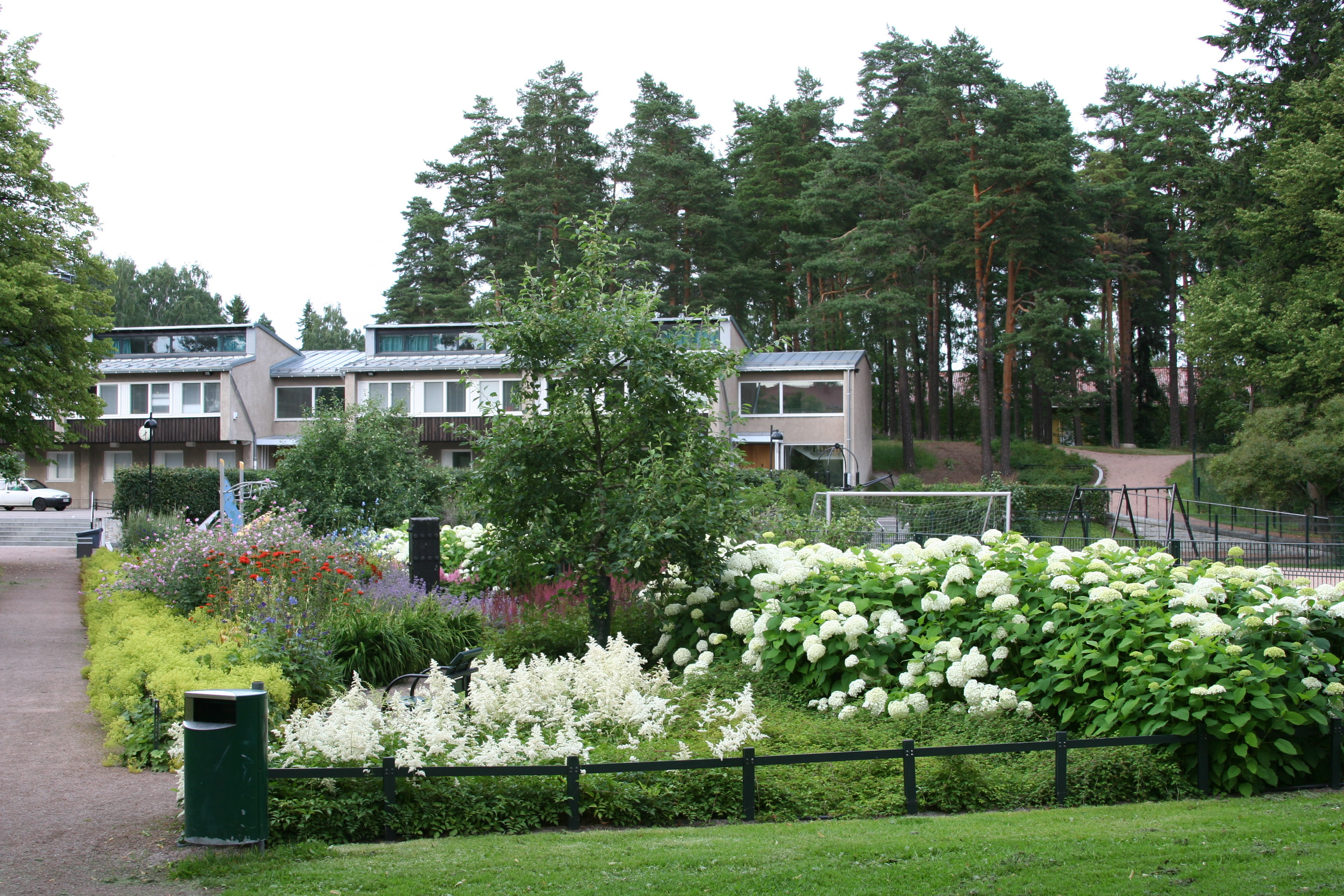 Otto-Iivari Meurmans park, Käpylä, Helsinki, Finland